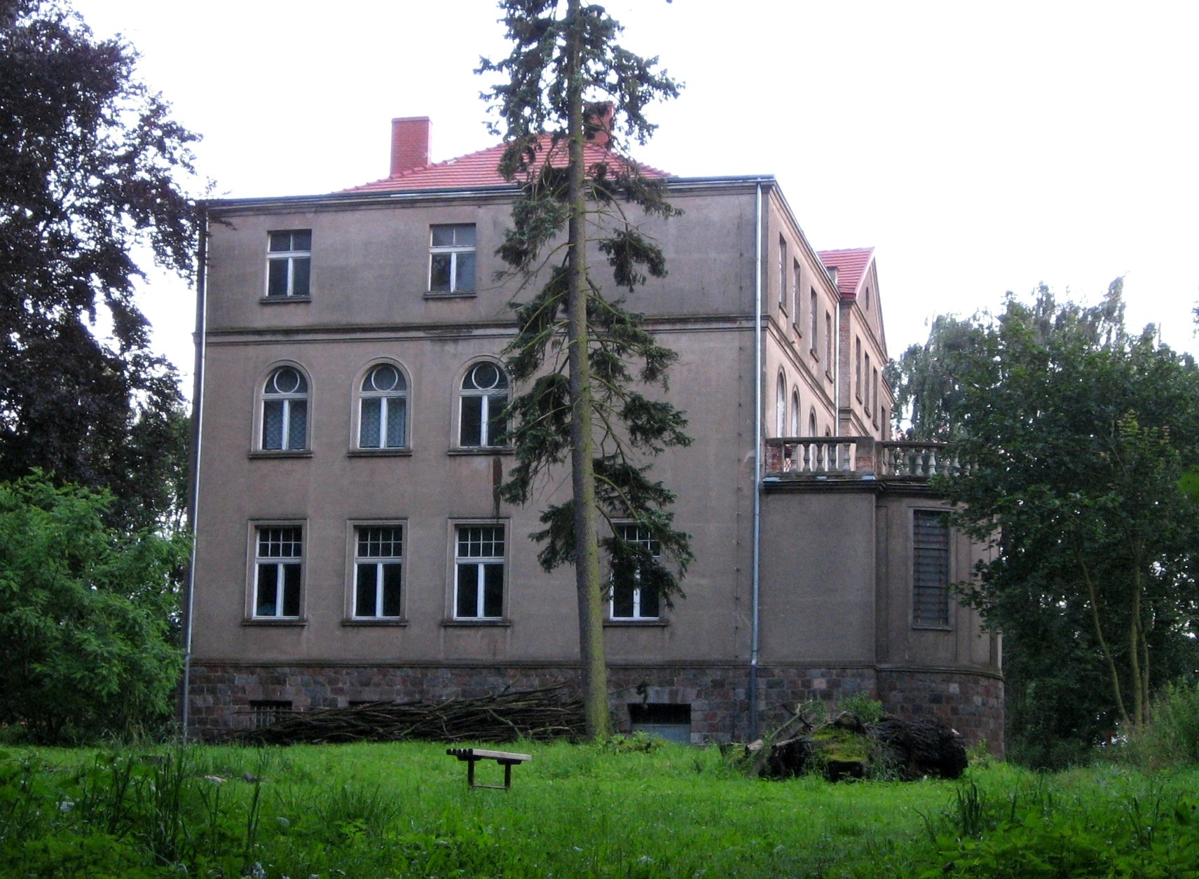 pallotyni dom suchary sac